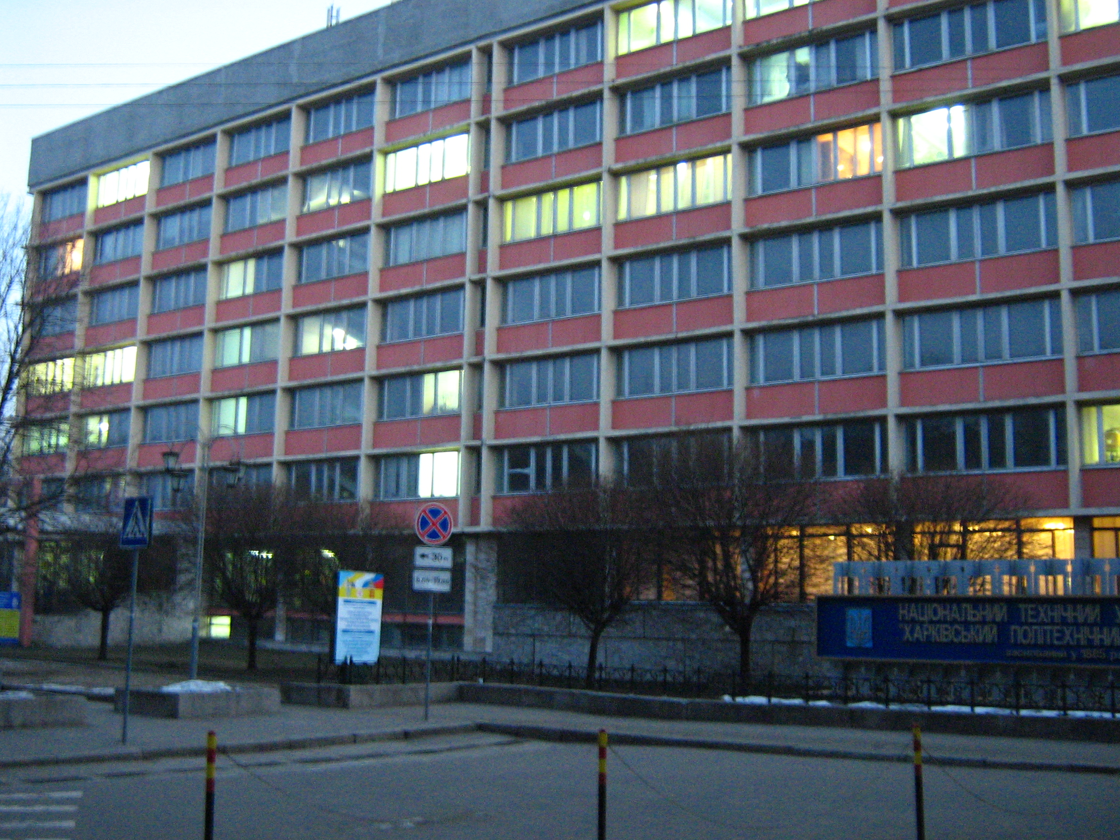 Training Corps-2 (U-2) of the National Technical University of Kharkov Polytechnic Institute.